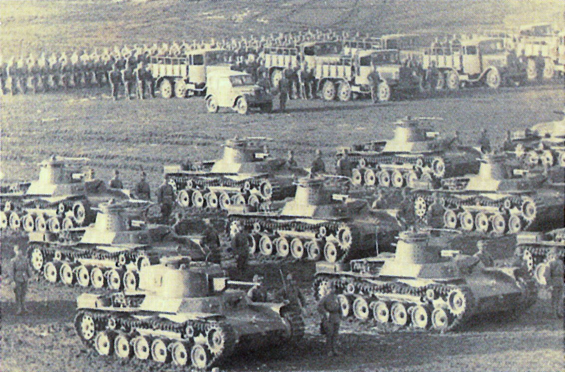 Type 97 Chi-ha and Shinhoto Chi-ha from Japanese 11th Tank Regiment.